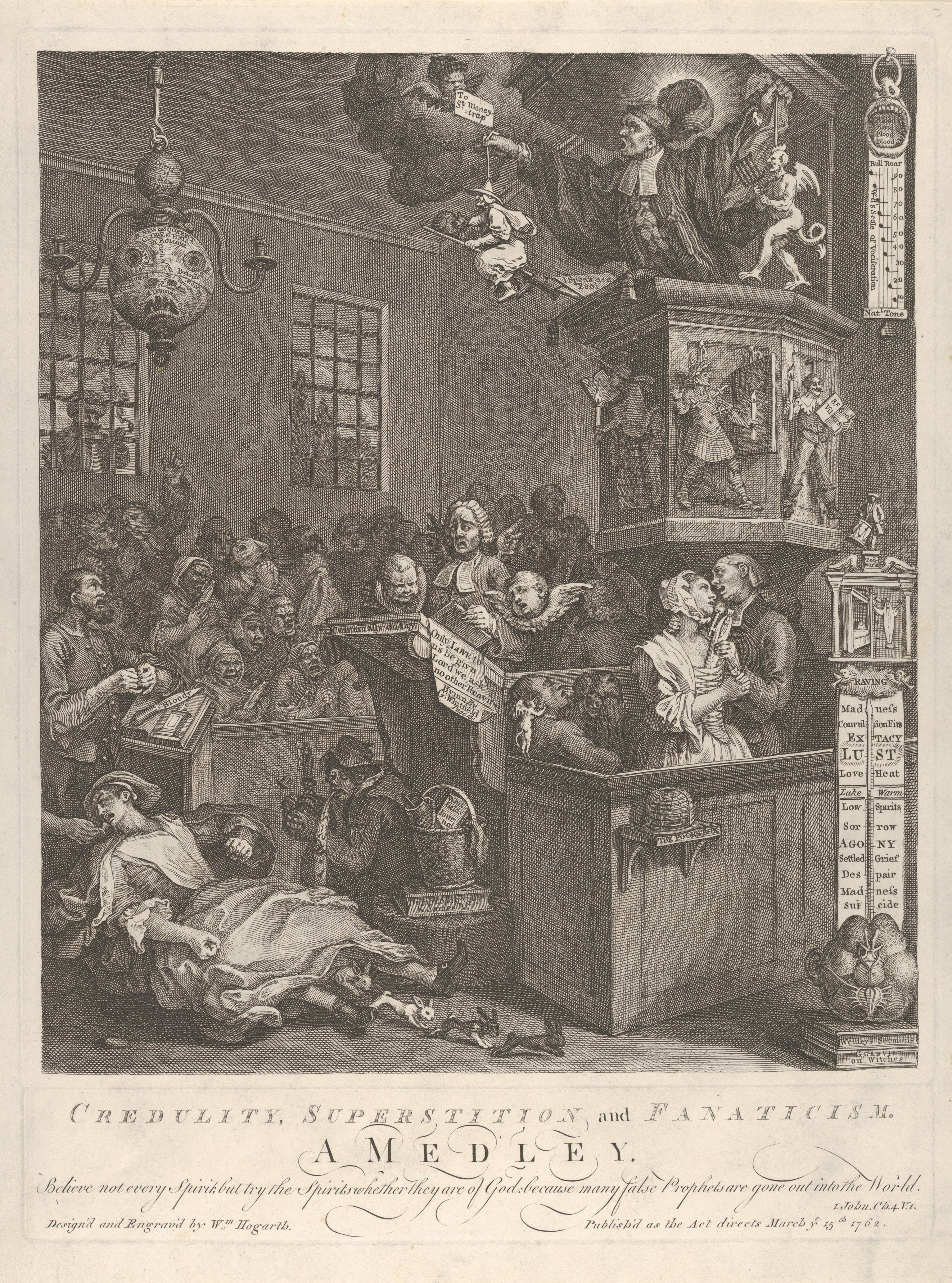 Print; Prints